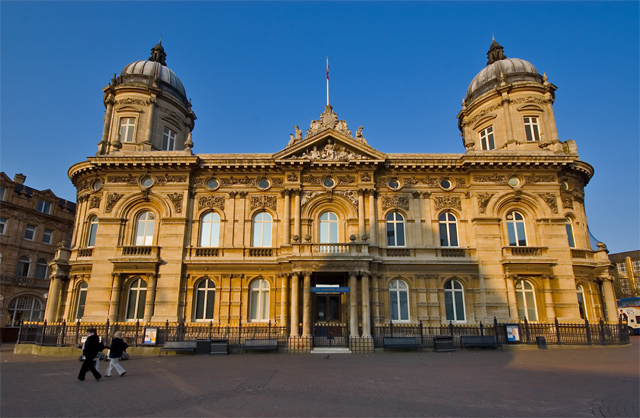 Hull Maritime Museum The museum has occupied the former Dock Offices on Queen Victoria Square since 1974. It houses a large collection of whaling memorabilia, whale skeletons, tools and scrimshaw (carved whalebone). The museum also tells the city's fishing history and features work by local marine artists such as John Ward and Henry Redmore.